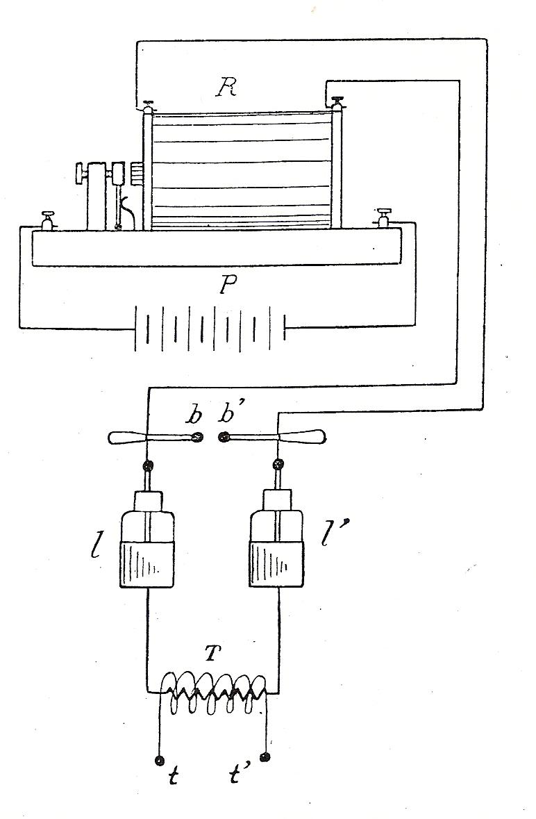 Spark-gap radio transmitter circuit using induction (Ruhmkorff) coil (used around 1905)